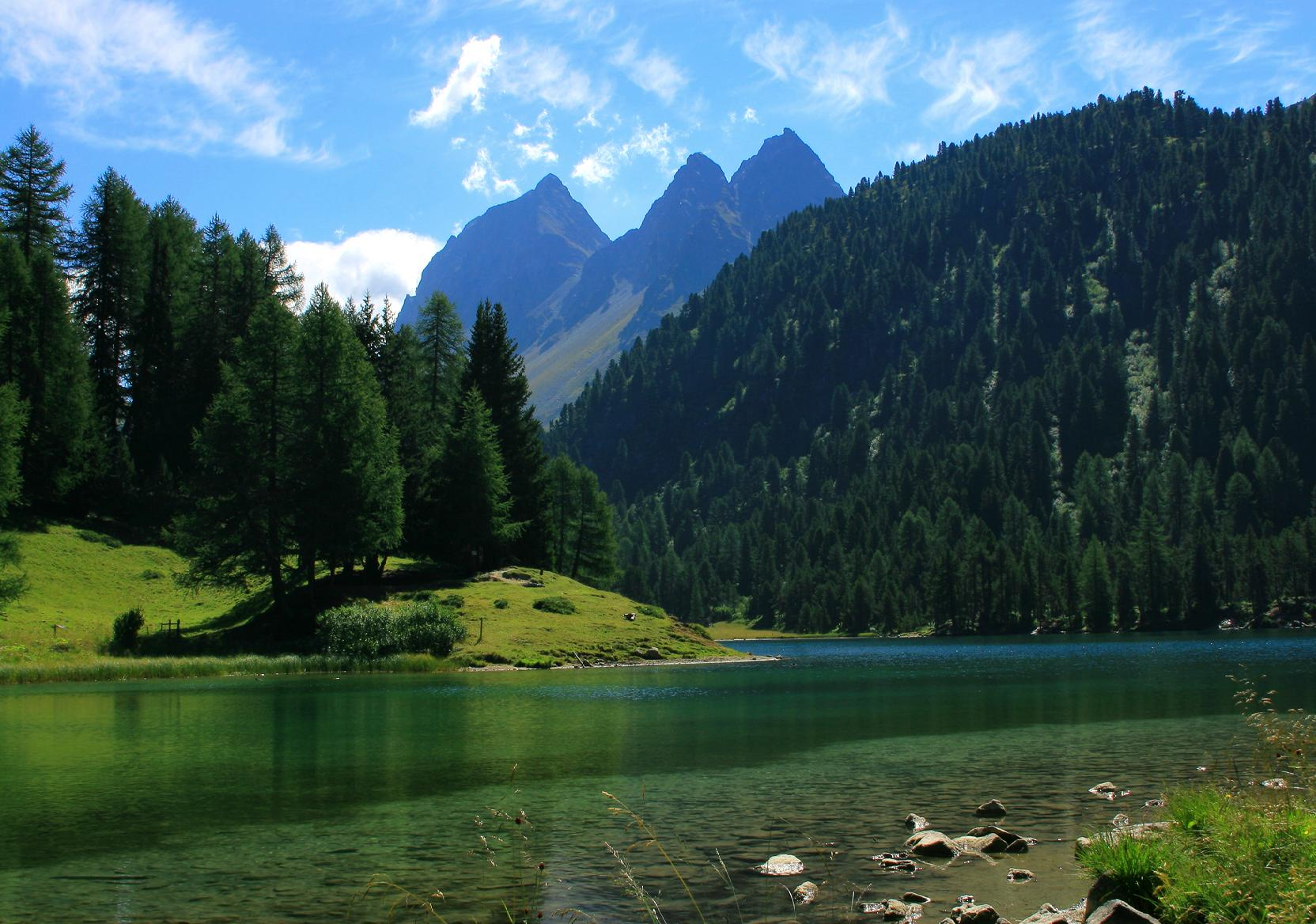 Lake Palpuogna, near the Albula Pass in Graubünden.